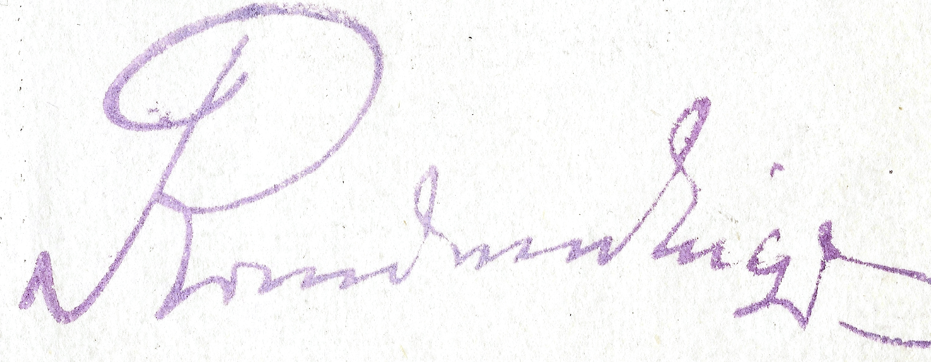 Tadeusz Rozwadowski's signature